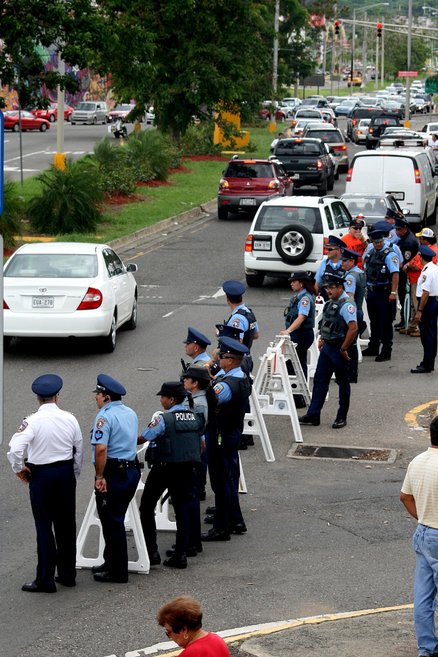 University of Puerto Rico (UPR) protests May 18, 2010, news description of event